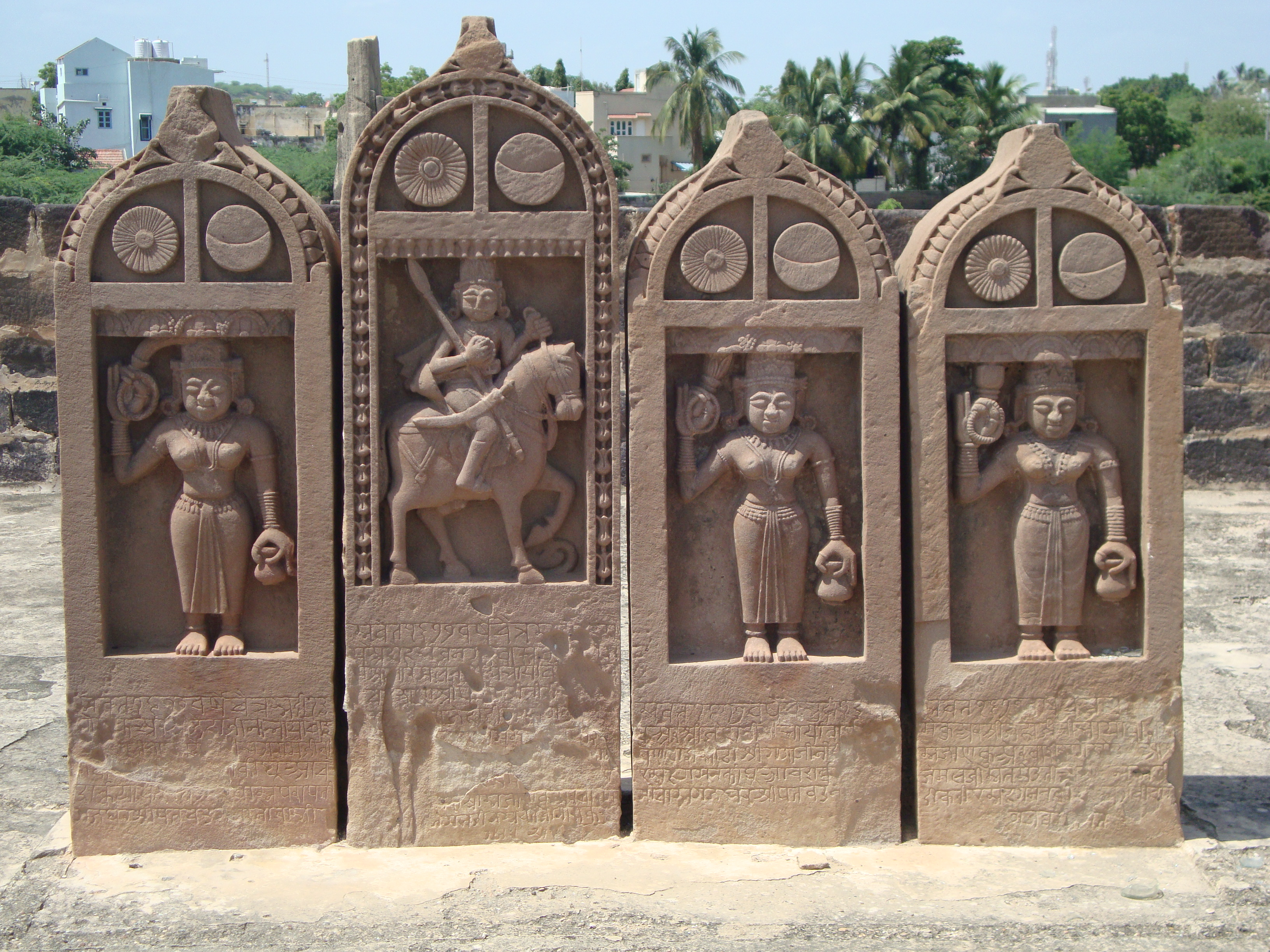 Samadhi near chatri3